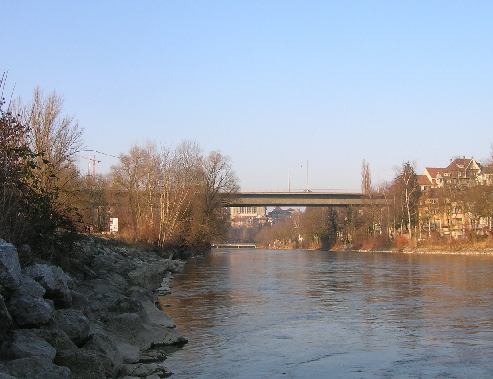 Monbijoubrücke - Bridge, which crosses the Aar in Berne